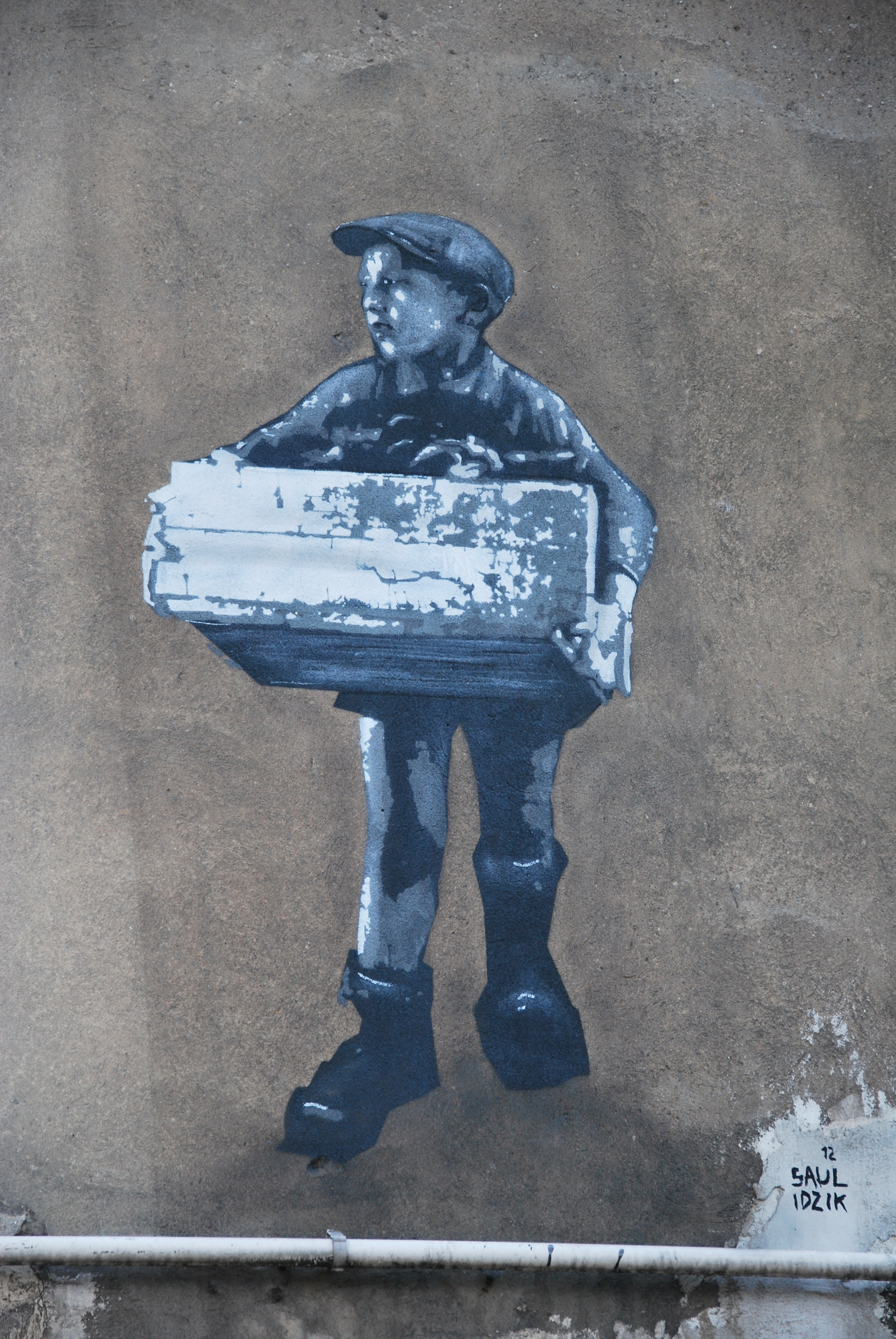 Allgemeine Gehsperre mural, Łódź 16 WiN Street